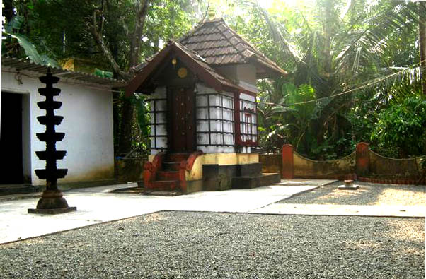 Vazhappally Vaipooru Mahadeva Temple Front view